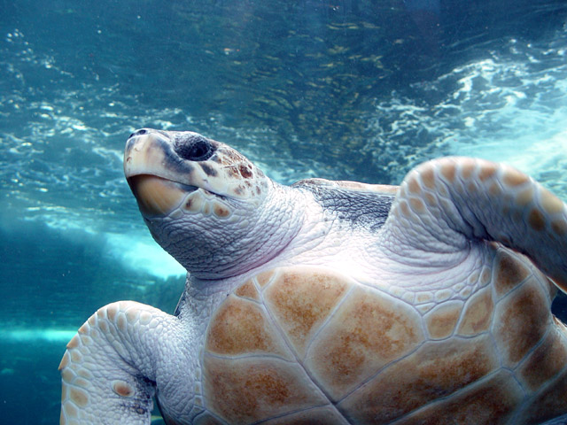 Loggerhead Sea Turtle